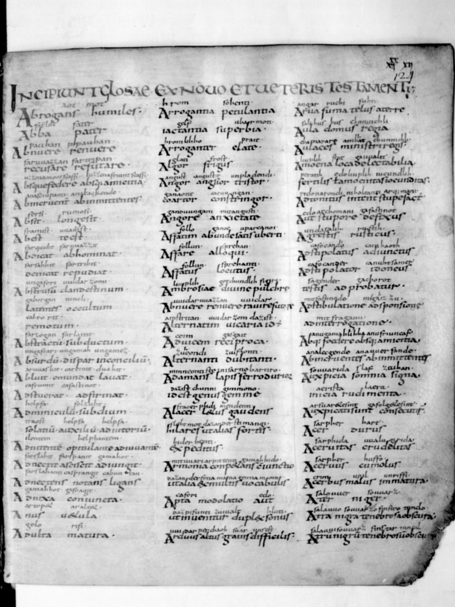 The first page of Abrogans in Codex Latinus 7640 ( BnF, Paris)